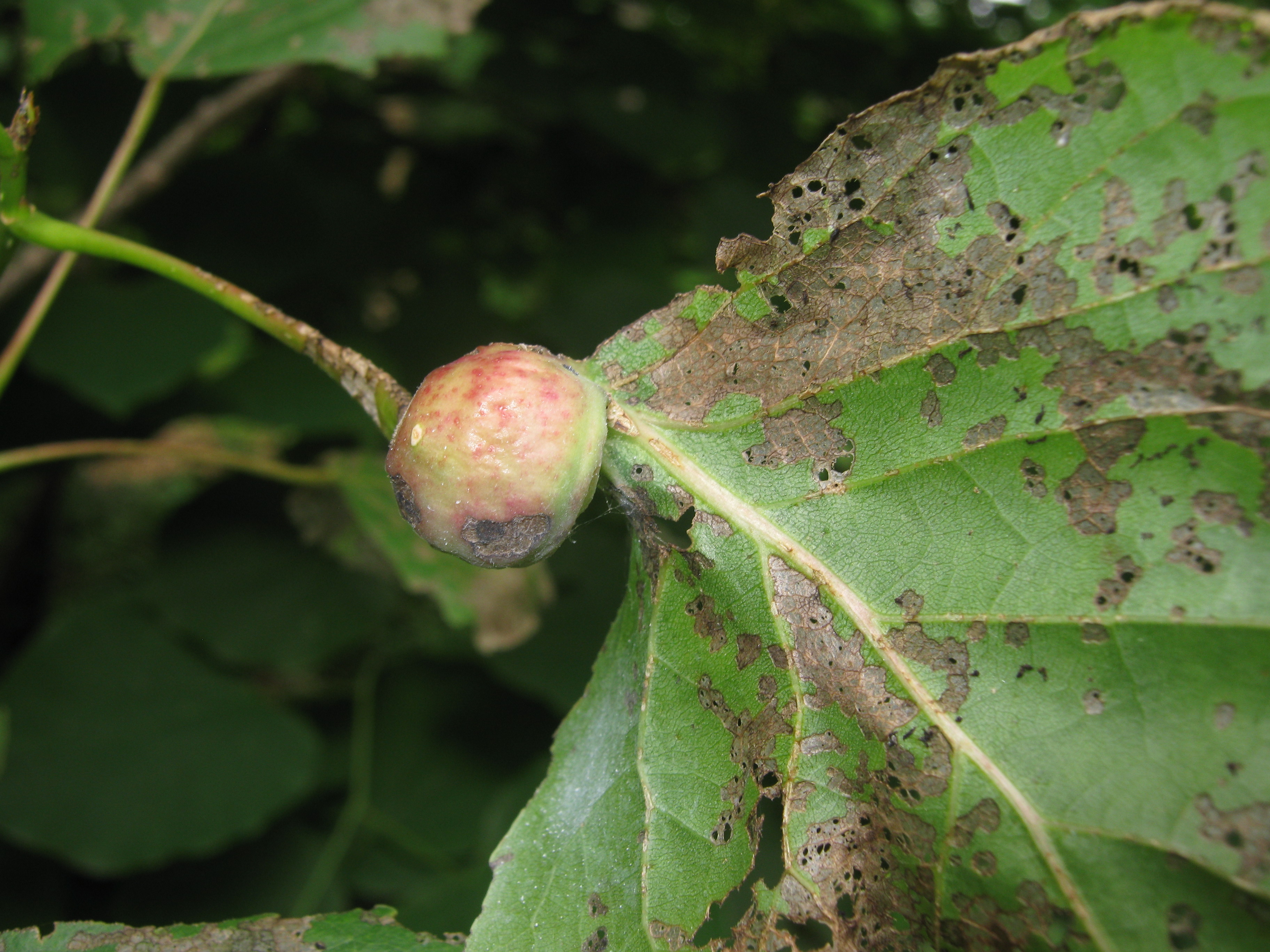 Gall made by a woolly aphid, Pemphigus, on the petiole of a leaf of cottonwood. Briar Bush Nature Center, Montgomery County, Pennsylvania, USA.